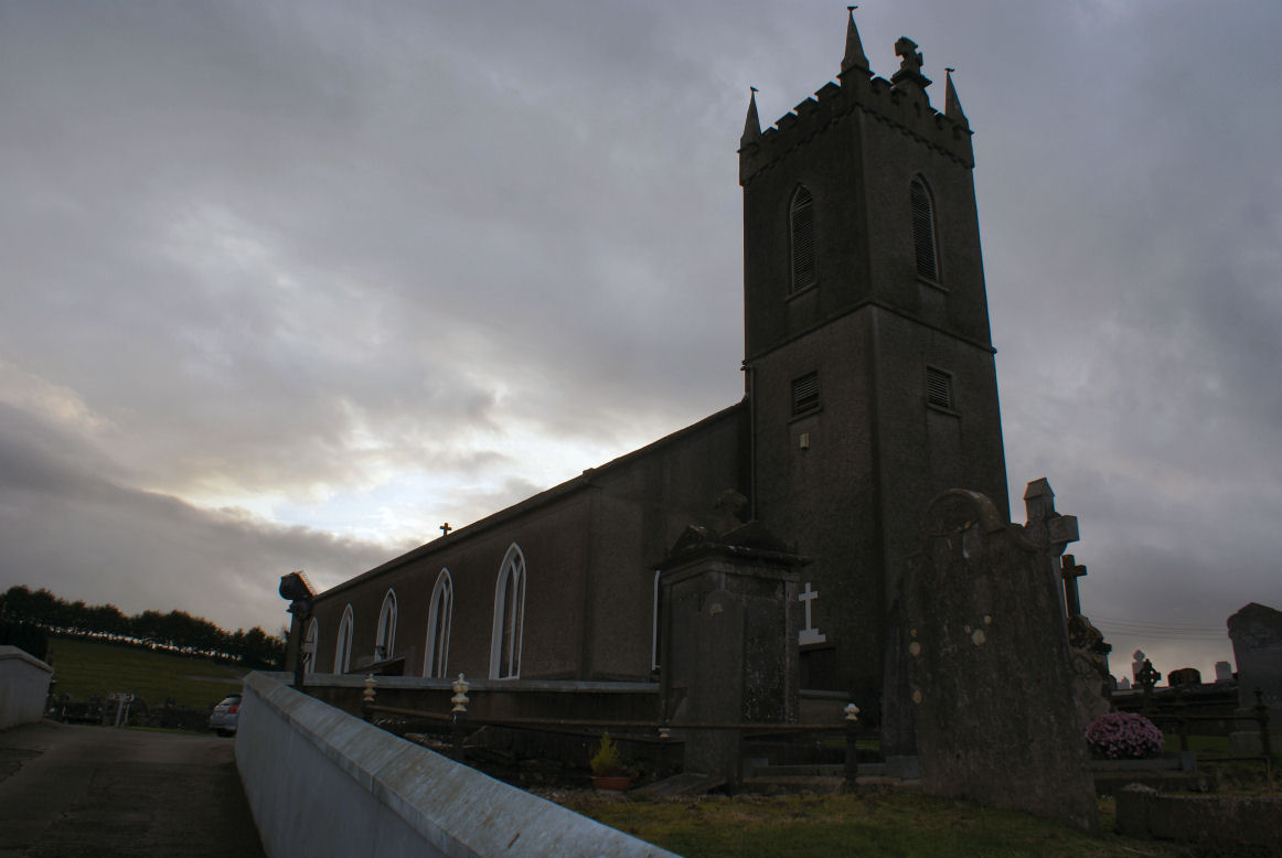 Patrick Kavnagh Centre